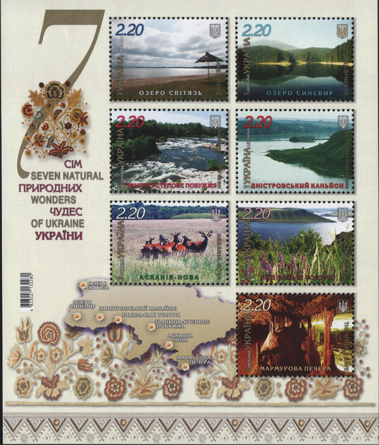 Seven nature miracles of Ukraine: lake Svitiaz, lake Synevyr, Granite-steppe lands of Buh, Dniester Canyon, biosphere reserve Askania-Nova, National Environmental Park "Podilski Tovtry", Marble Caves. Designed by Maria Geiko. Miniature sheet of Ukraine, 2011.